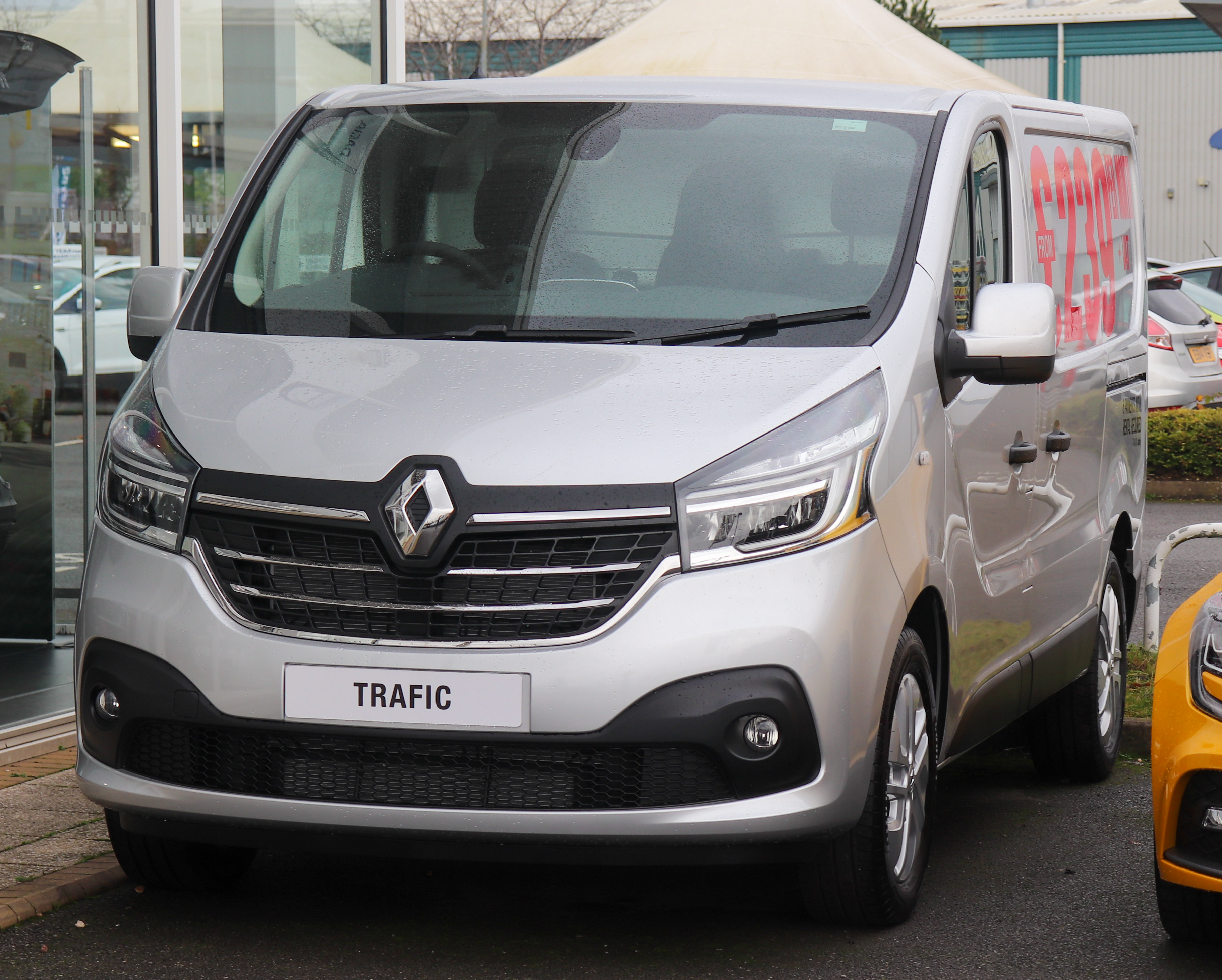 2019 Renault Trafic Sport SWB Taken in Leamington Spa